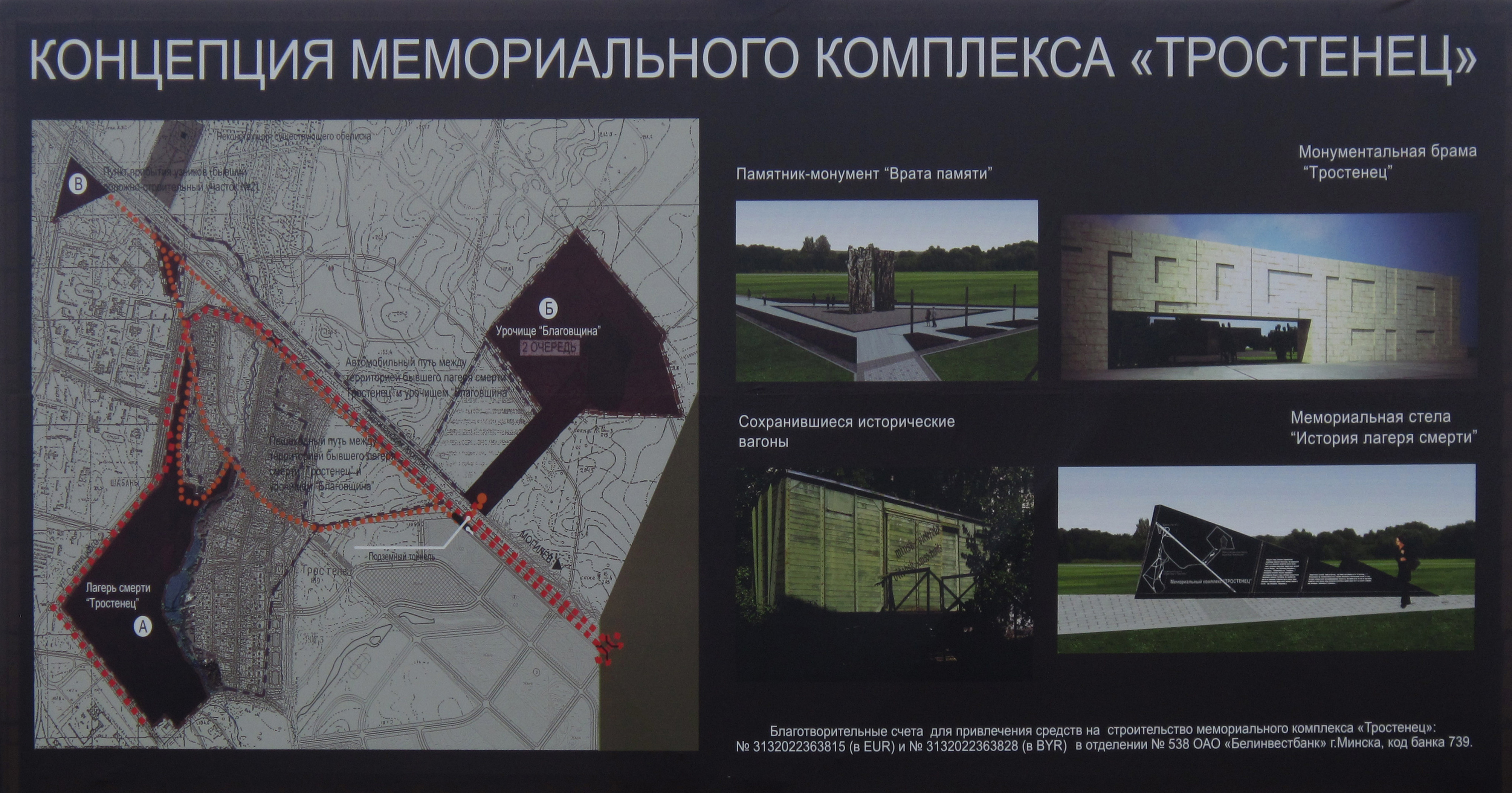 General plan (conception) of Maly Trastsianets extermination camp (Minsk, Belarus)